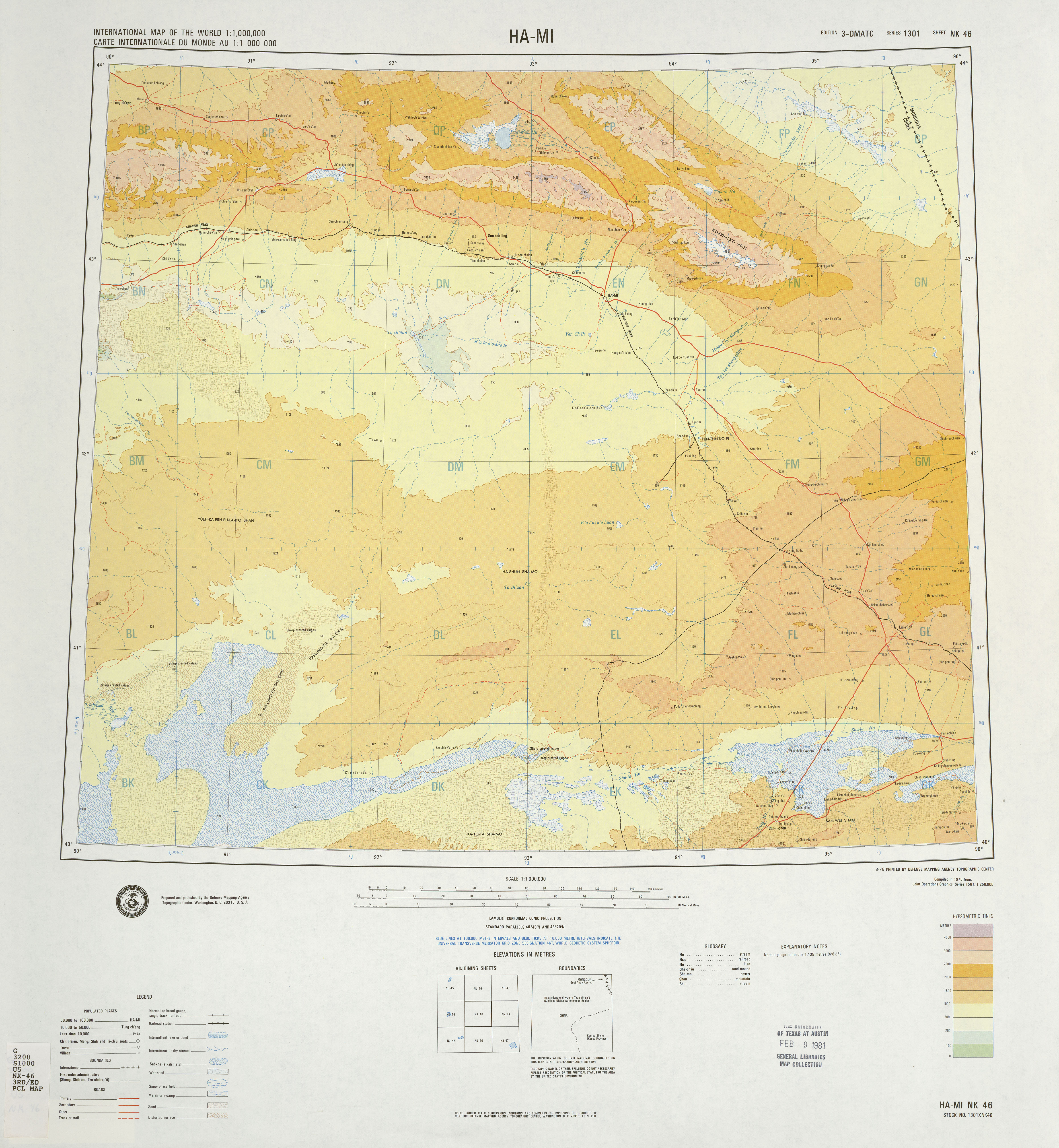 Map from the International Map of the World 1:1,000,000